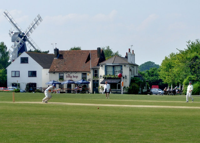 Cricket on Meopham Green The home of cricket? An idyllic village green in Kent where the game has been played for centuries. The present Meopham Cricket Club was founded in 1776.